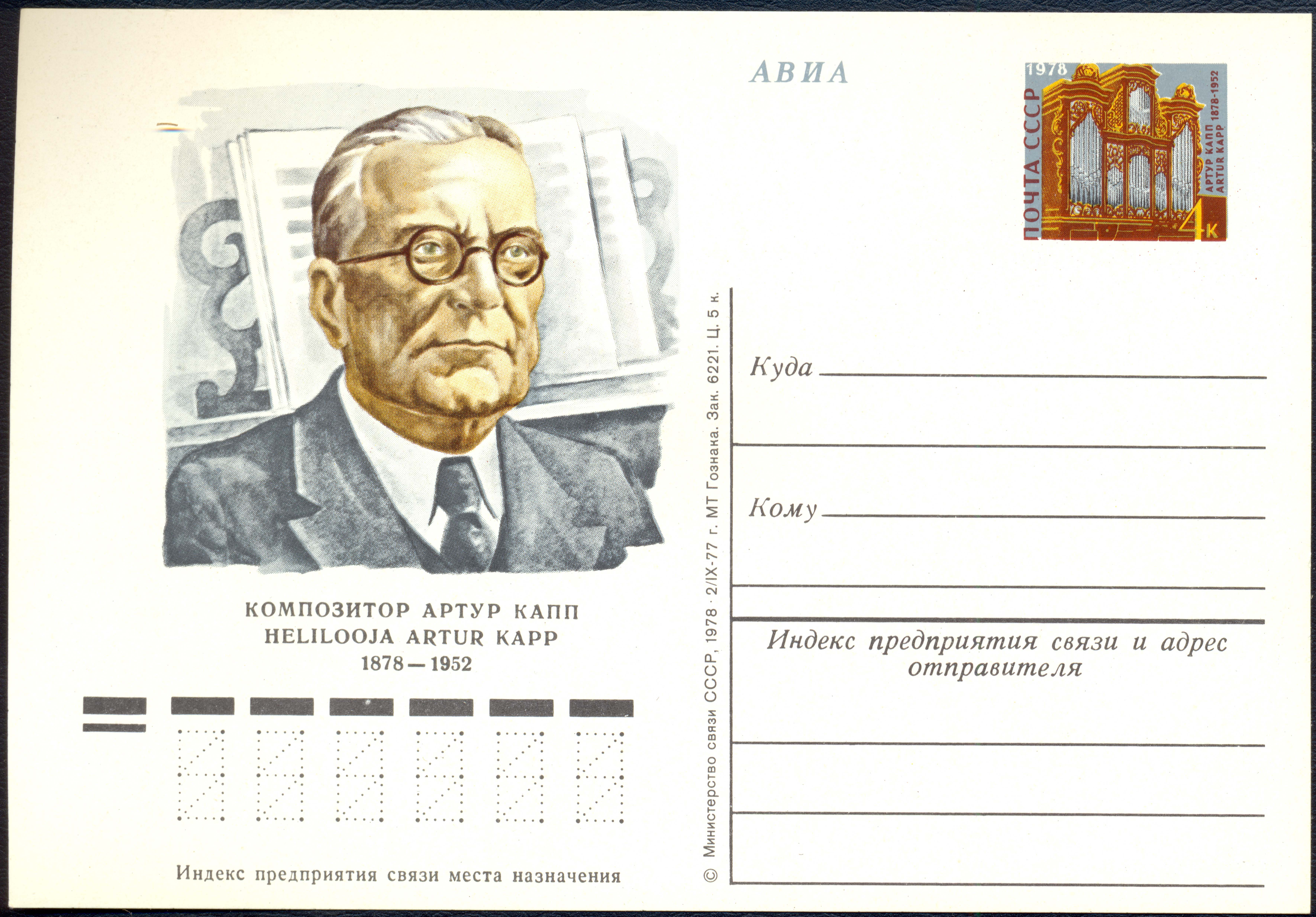 Stamped USSR post card dedicated to Artur Kapp (1878-1952) with original stamp, 1978, 4 kop.